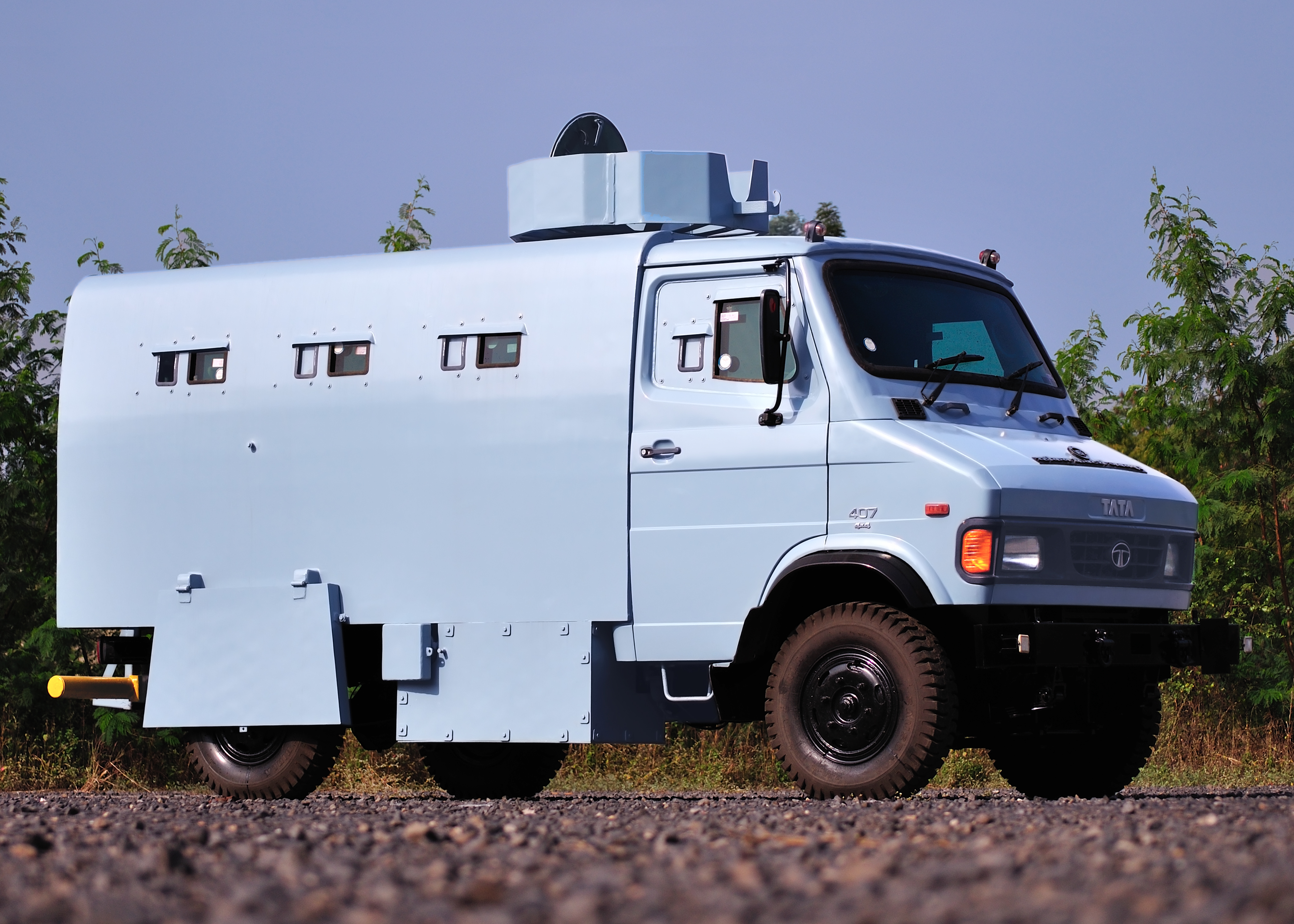 Ordnance Factory Board Vehicle Factory Jabalpur (VFJ)'s Bullet Proof 407